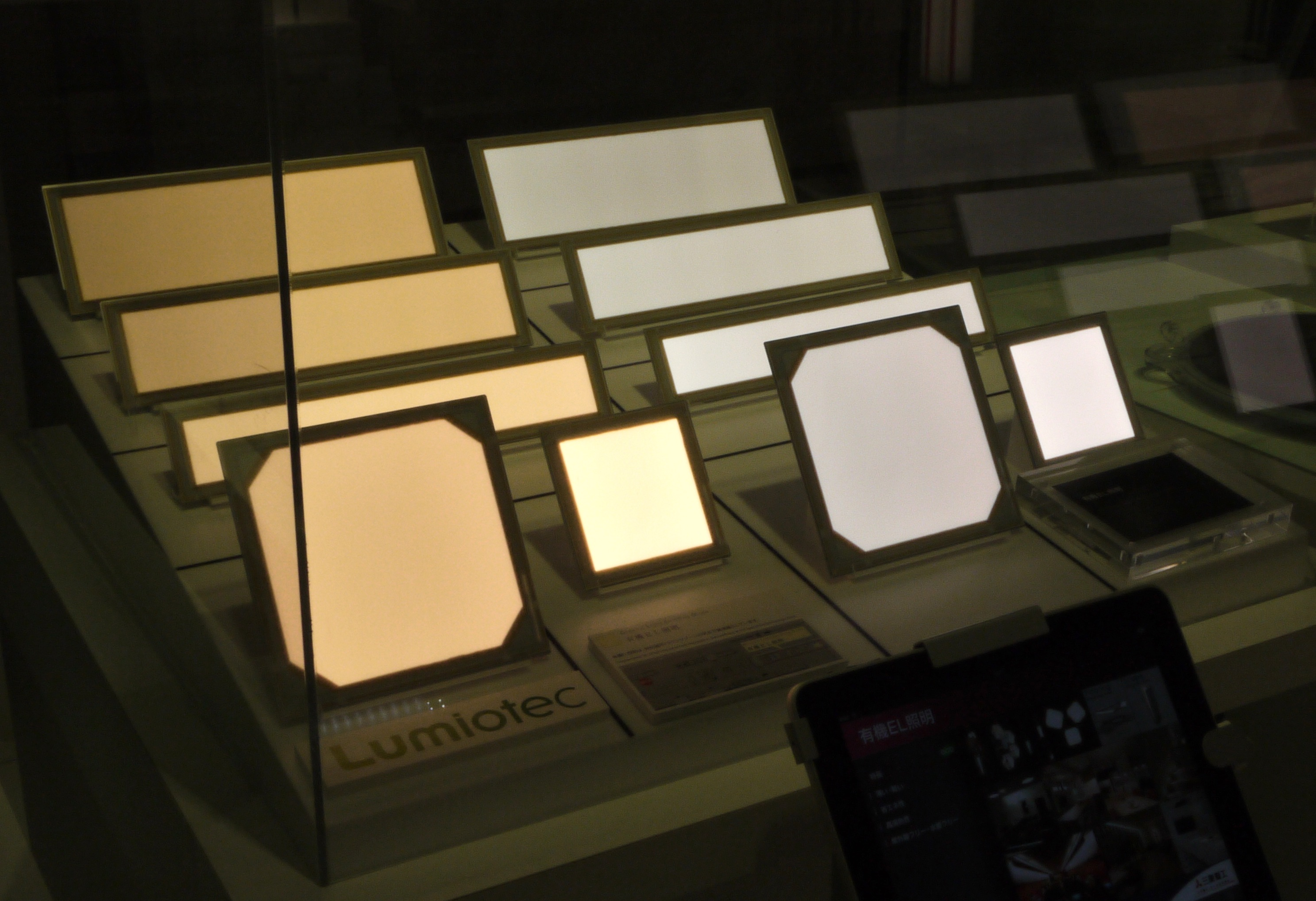 tamil